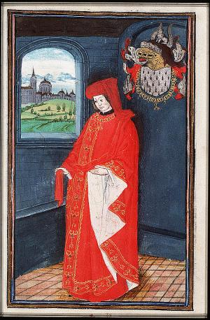 Statuts, Ordonnances et Armorial de l'Ordre de la Toison d'Or (Statutes, Ordonnances and armorial of the Order of the Golden Fleece) Place of origin, date: Southern Netherlands; 1473. Added sections: Southern Netherlands; 1478 or shortly after and 1491 or shortly after Material: Vellum, ff. 86, 249x187 (167x106) mm, 23 lines, littera cursiva (lettre bourguignonne). French. Binding: 18th-century brown leather Decoration: 1 full-page miniature (170x115 mm) with border decoration; 92 miniatures (185/155x120/100 mm); 1 historiated initial (80x90 mm) with border decoration; decorated initials with border decoration (ff., Added section: miniatures ; 4 drawings for miniatures (not finished) Provenance: Presented in 1473 by Gilles Gobet, King of Arms of the Order of the Golden Fleece, to Charles the Bold, Duke of Burgundy and the other Knights during the Chapter of the Order held at Valenciennes; Treasure of the Golden Fleece, Brussls; taken away by the Treasurer C.-F. Humyn (d. 1735) or his daughter C.Ch. de Corte; by legacy to her daughter M.-L. de Corte, wife of Ph.-E. de Poederlé; purchased in 1781 at the Poederlé sale by G.-J- Gérard of Brussels; acquired in 1832 as part of the Gérard collection (no. A 27)